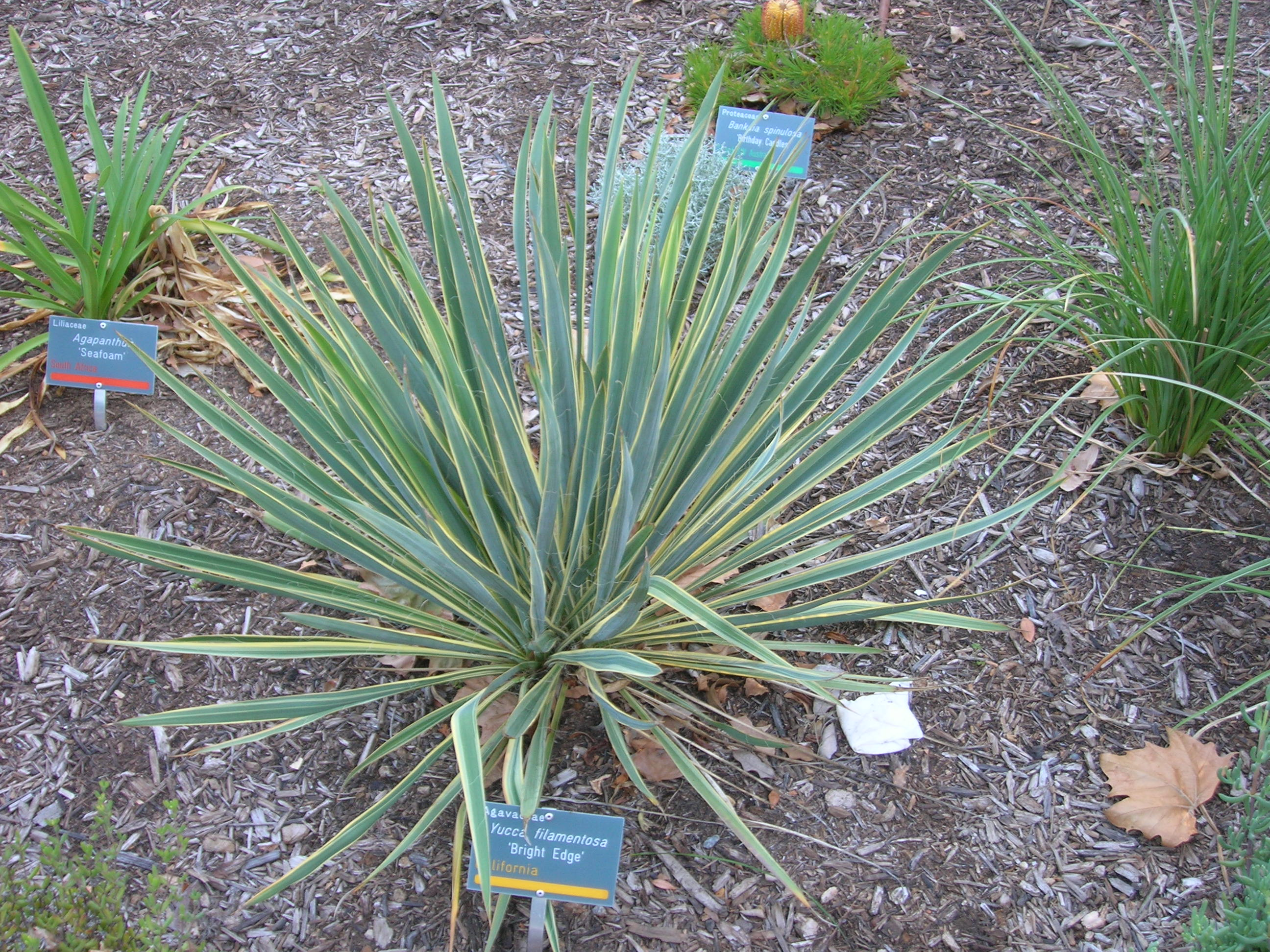 Agavaceae Yucca filamentosa ‘Bright Edge’ California Find out more at SA Water Mediterranean Garden Located at the Adelaide Botanic Garden i040707 161